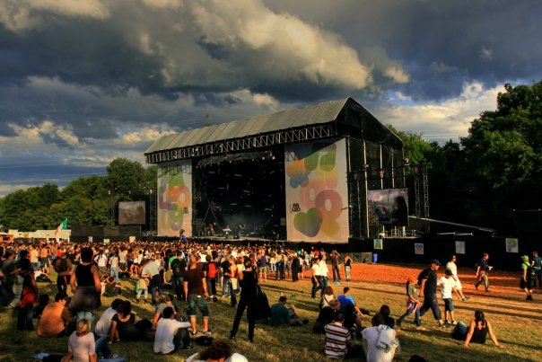 Grande Scène at Paléo Festival